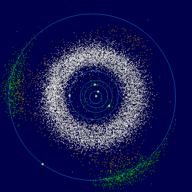 The inner Solar System, from the Sun to Jupiter. Also includes the Main Asteroid Belt (the white donut-shaped cloud), the Hildas (the orange "triangle" just inside the orbit of Jupiter) and the Jovian Trojan's (green). The group that leads Jupiter are called the "Greeks" and the trailing group are called the "Trojans" (Murray and Dermott, Solar System Dynamics, pg. 107). This image is based on data found in the JPL DE-405 ephemeris, and the Minor Planet Center database of asteroids (etc) published 2006 Jul 6. The image is looking down on the ecliptic plane as would have been seen on 2006 August 14. It was rendered by custom software written for Wikipedia.